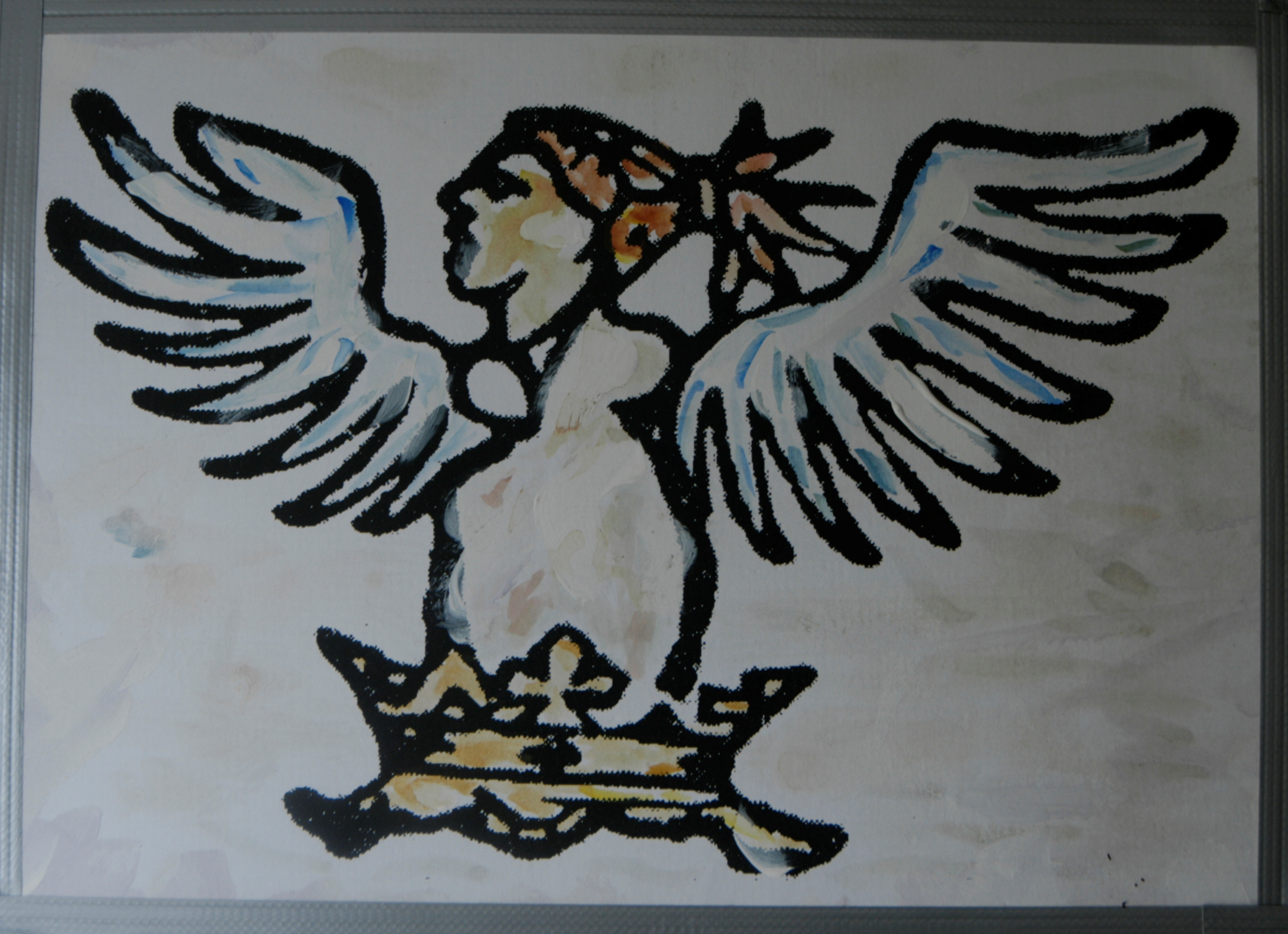 My digital photo (R. de SalisRodolph (talk) 23:46, 19 May 2014 (UTC)) of my adaption (c.2000, hand water-colour on enlarged photocopy with silver coloured gaffer-tape border) of an early example of the von Salis family crest: Bellona. Other information published well before, but probably also illustrated in Siegel und Wappen Der Familie Von Salis. Von Einem Mitglied Der Familie, (compiled by Nicolaus von Salis-Soglio), Basel : Birkhauser & Cie, 1928.